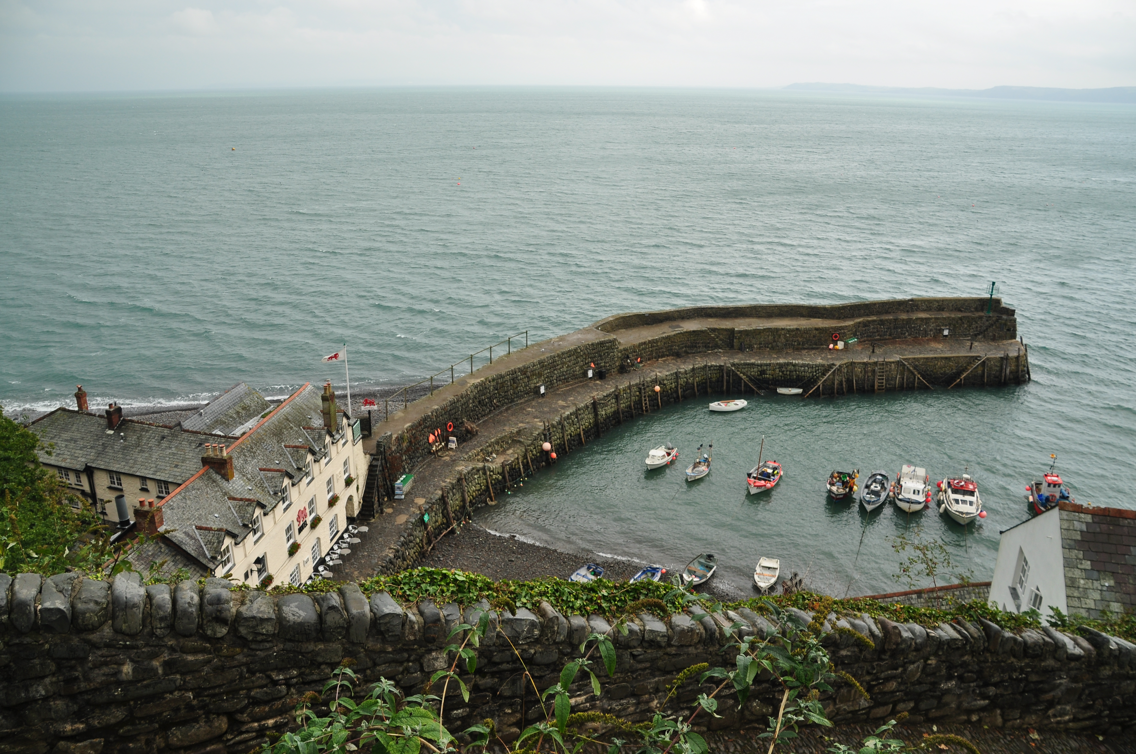 Clovelly harbour